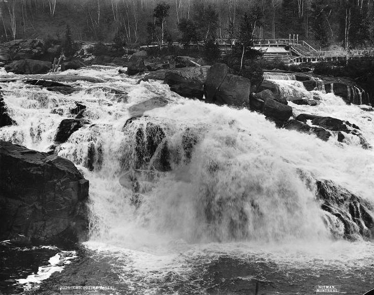 Photograph, Chicoutimi Falls, Saguenay River, QC, about 1890, Wm. Notman & Son. Silver salts on paper mounted on paper - Albumen process - 18 x 23 cm